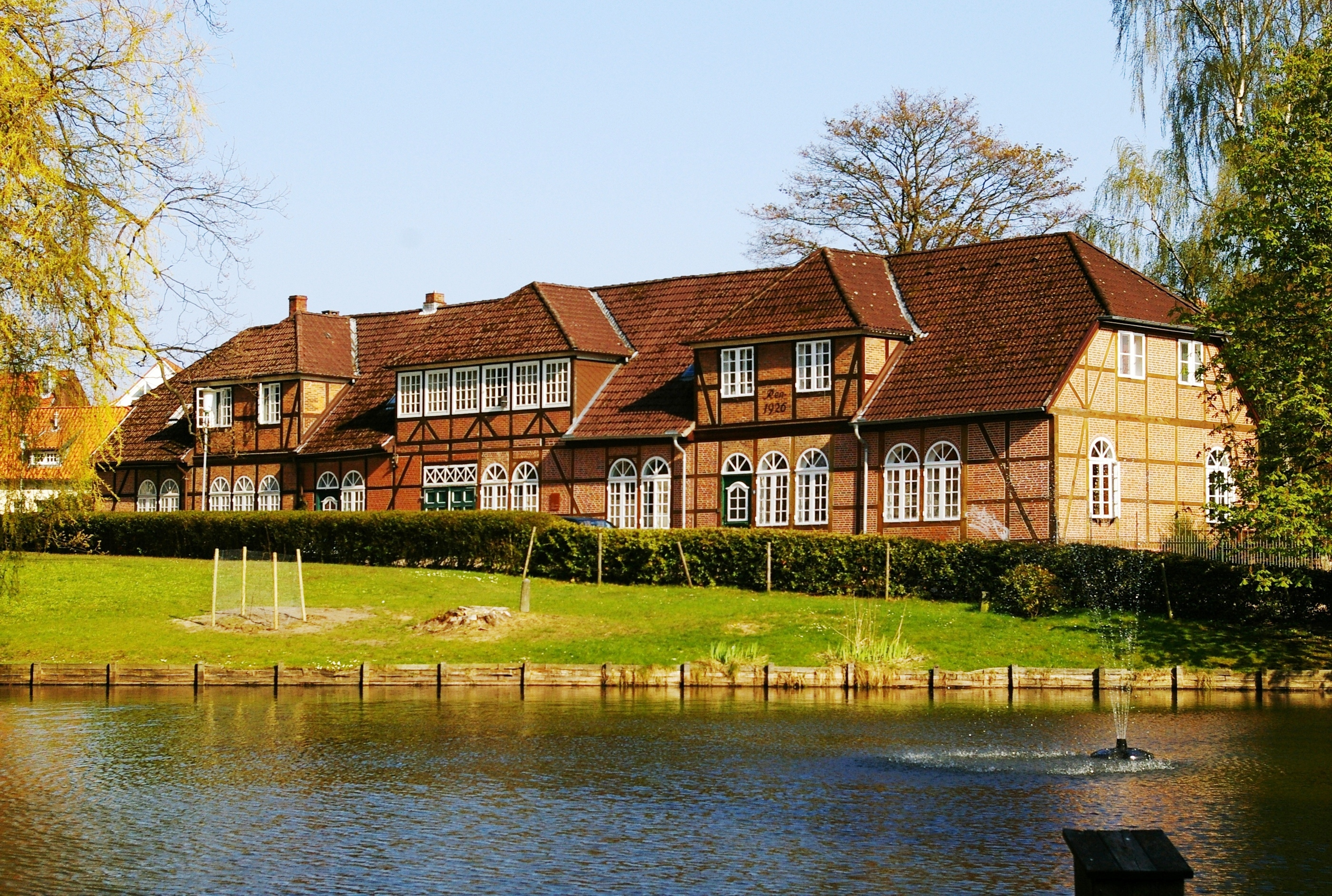 Former carriage building at Itzehoe convent